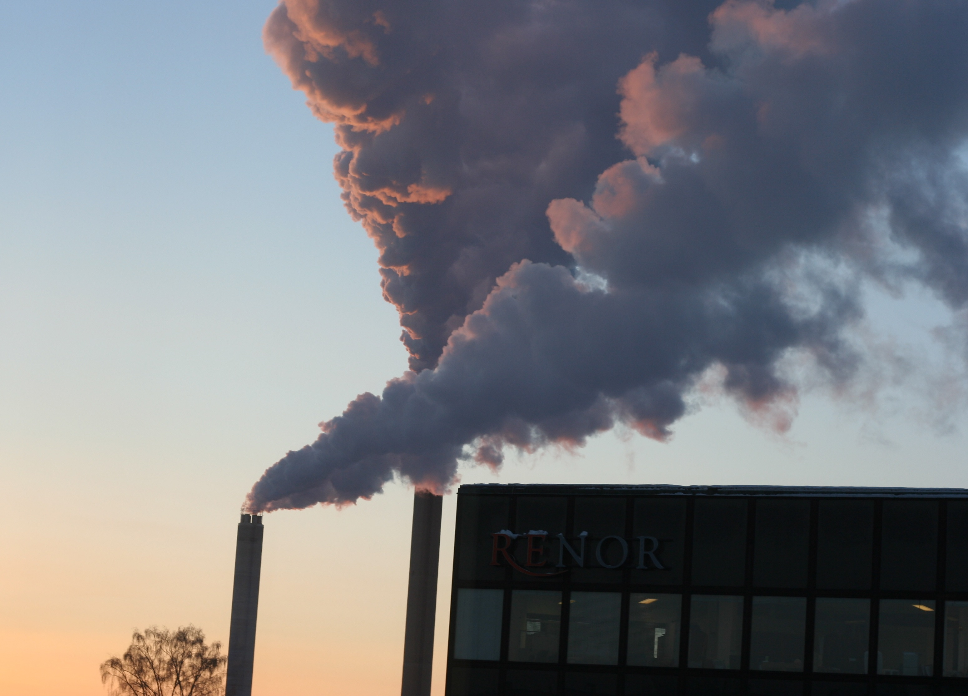 Smoke plumes from differen height go different directions due to wind shear